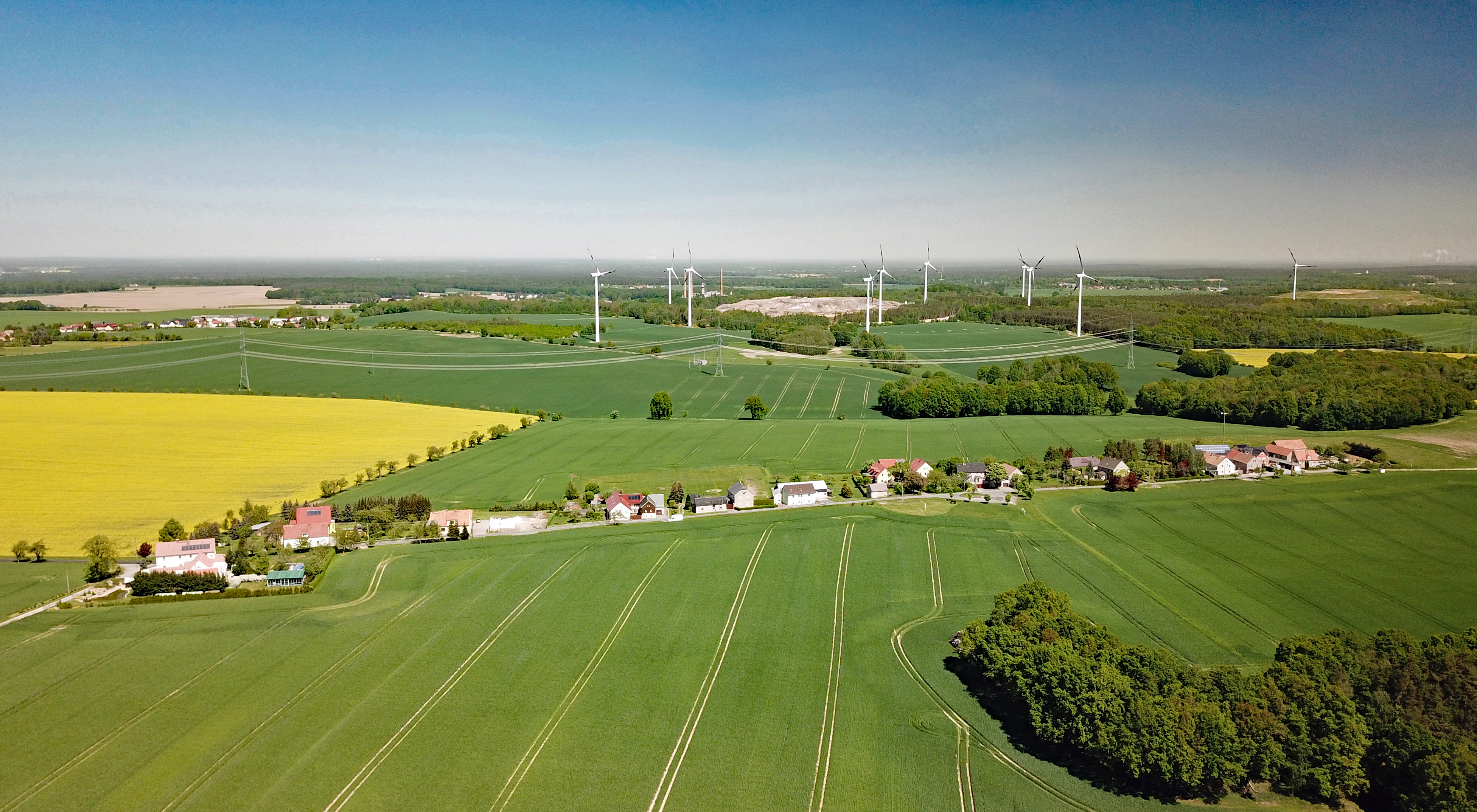 Neu-Lauske (Puschwitz, Saxony, Germany) Hornjoserbsce: Powětrowy wobraz Noweho Łusča